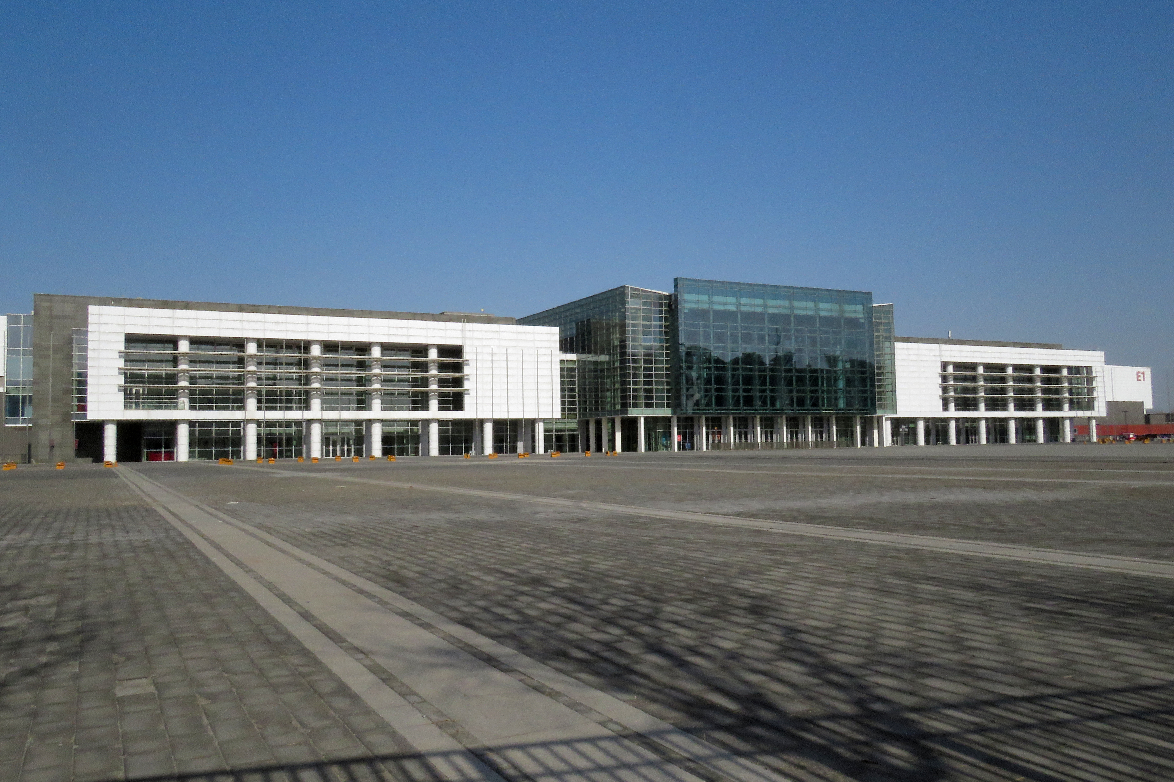 No events today.